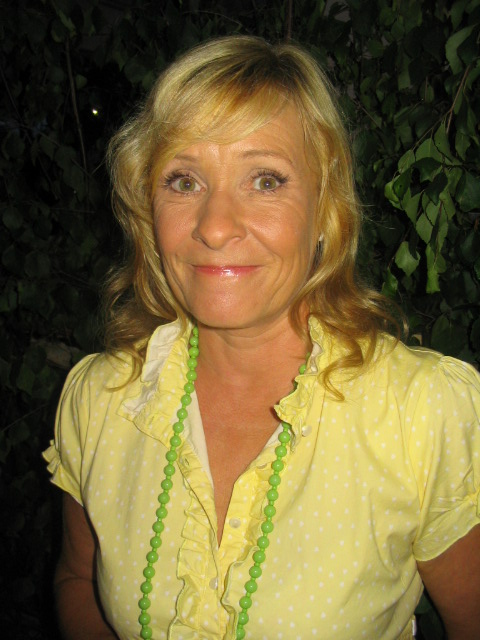 Taiska (real name Hannele Kauppinen) in Kiuruvesi, Finland in Vihreät Niityt music festival 13.7.2007.